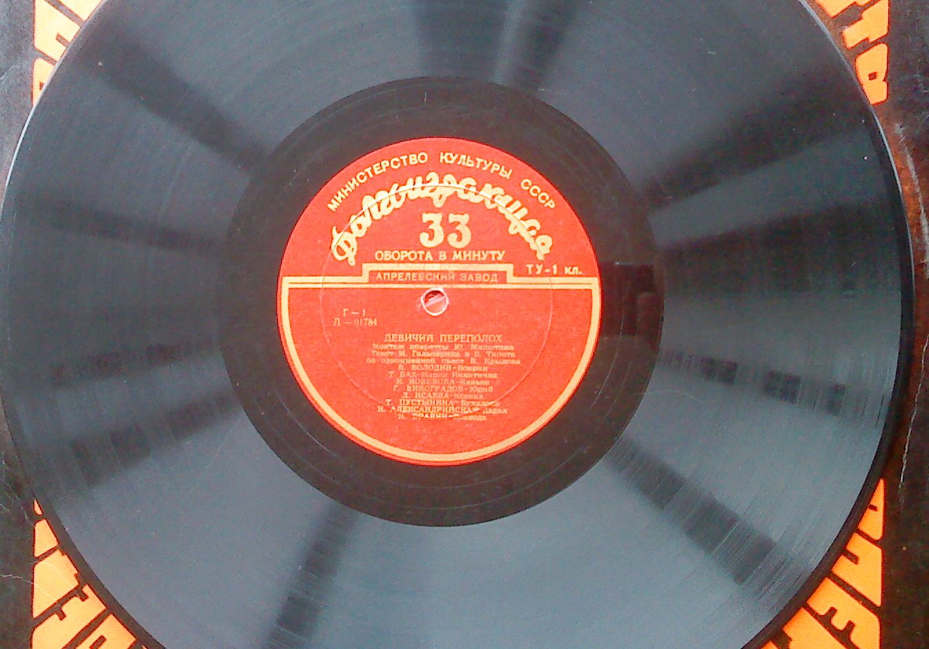 Gramophone record 1/4. Moscow, Aprelevka, 1952. Operetta by Yuri Milyutin.